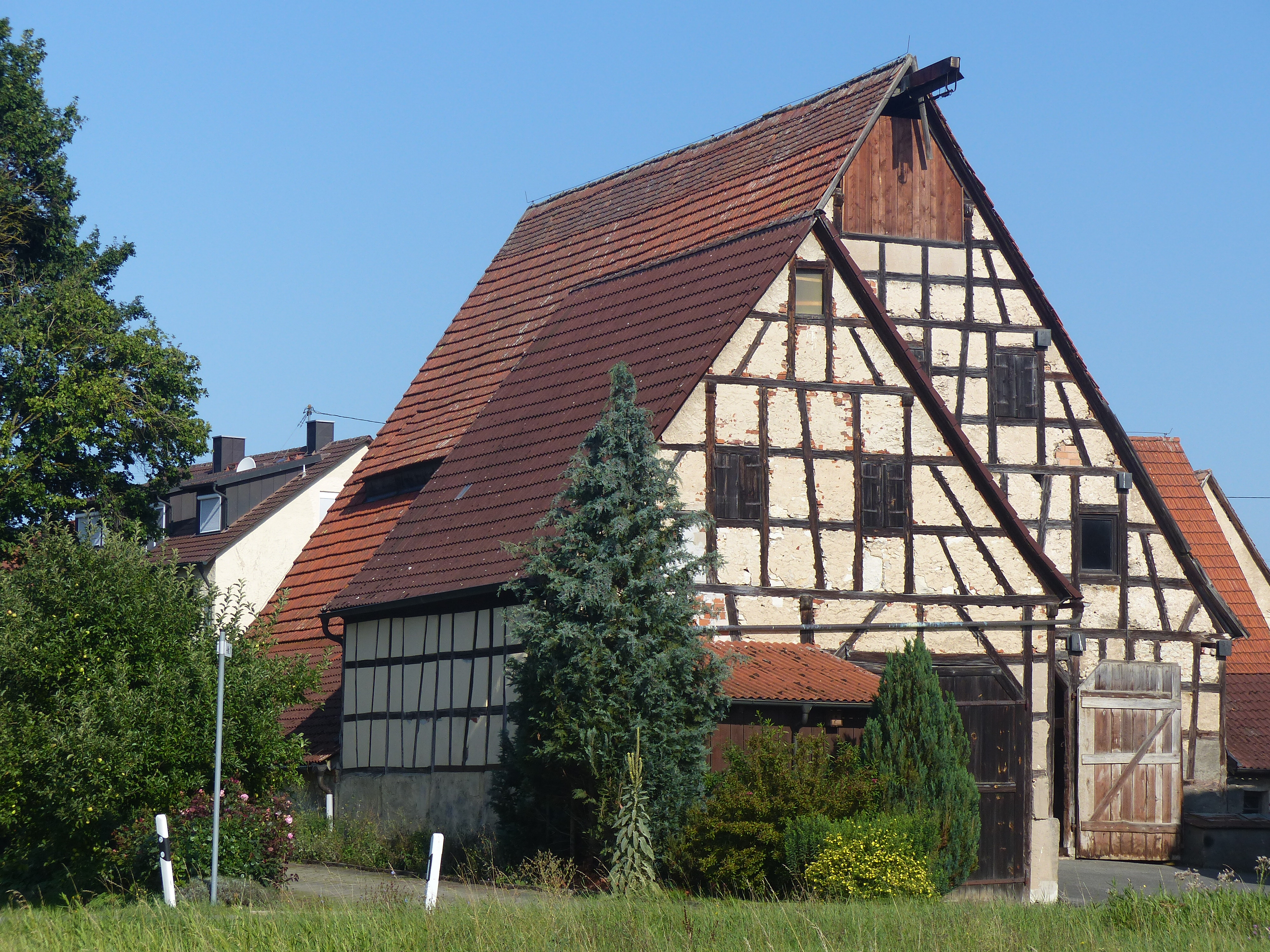 A barn group in the village Gräfenbergerhüll, a district of the town of Gräfenberg.